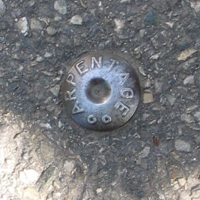 Point in France, found in Aix-en-Provence